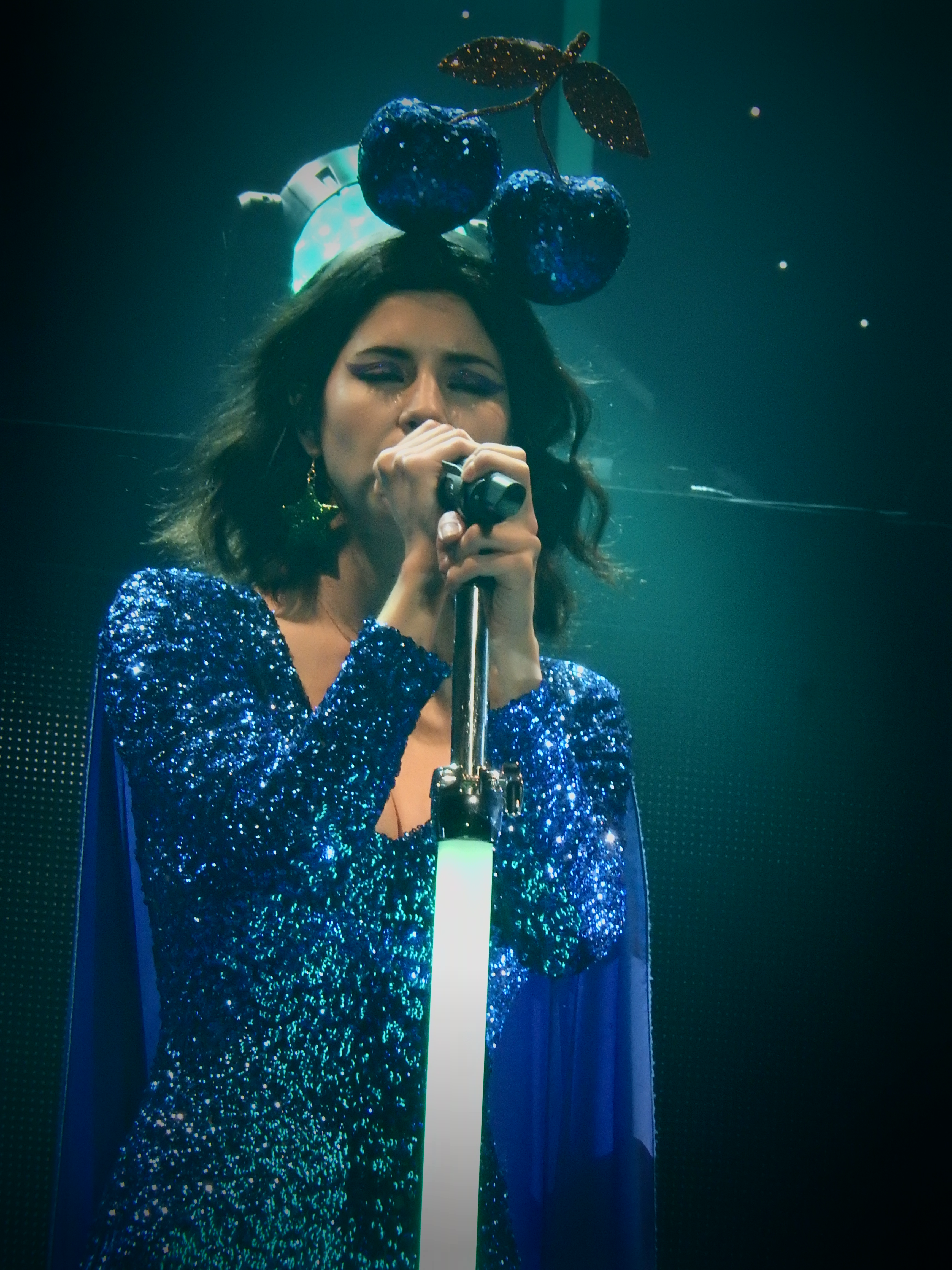 Marina performing at Roundhouse on February 21, 2016.